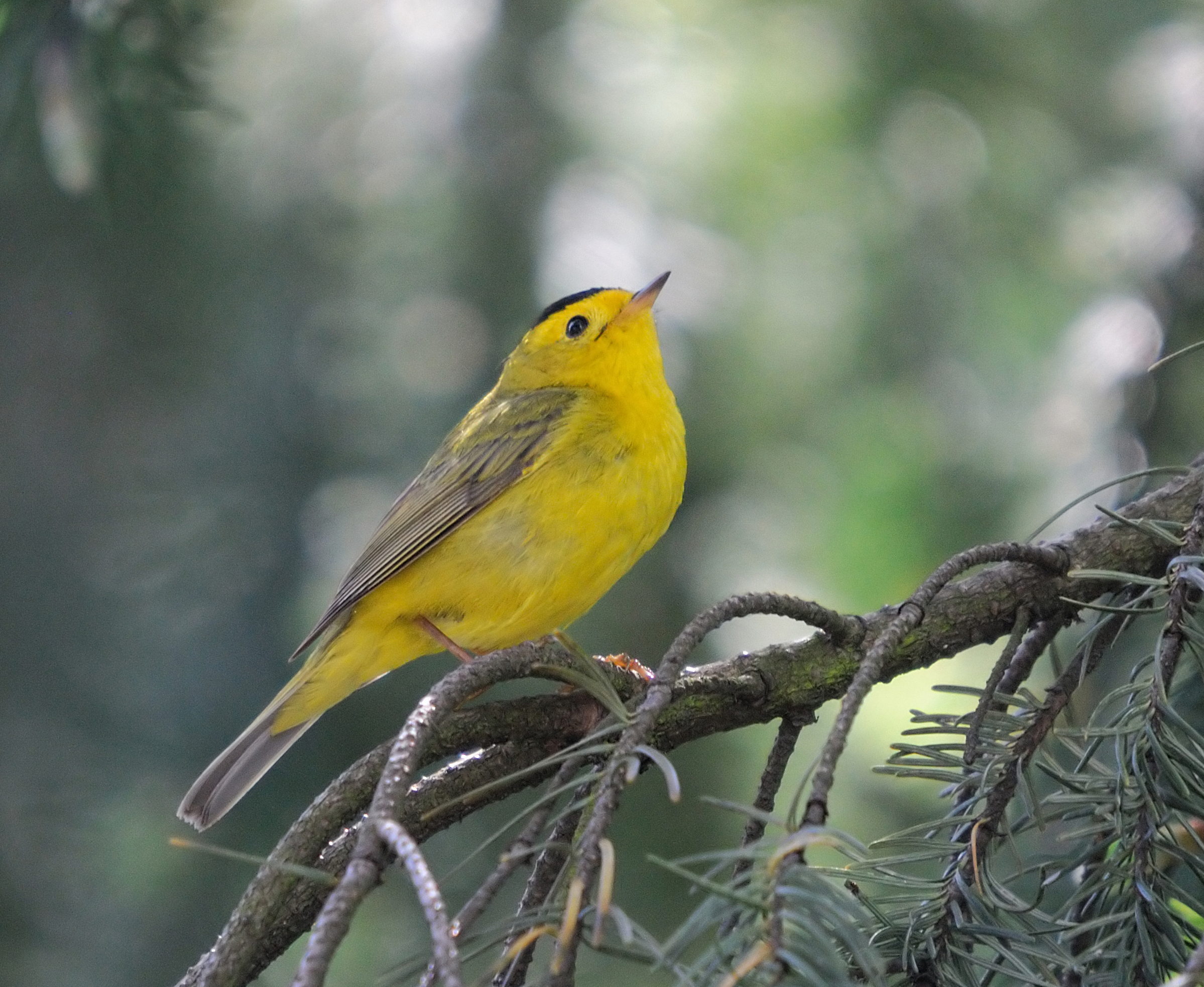 Wilsonia pusilla. Vancouver, Canada.